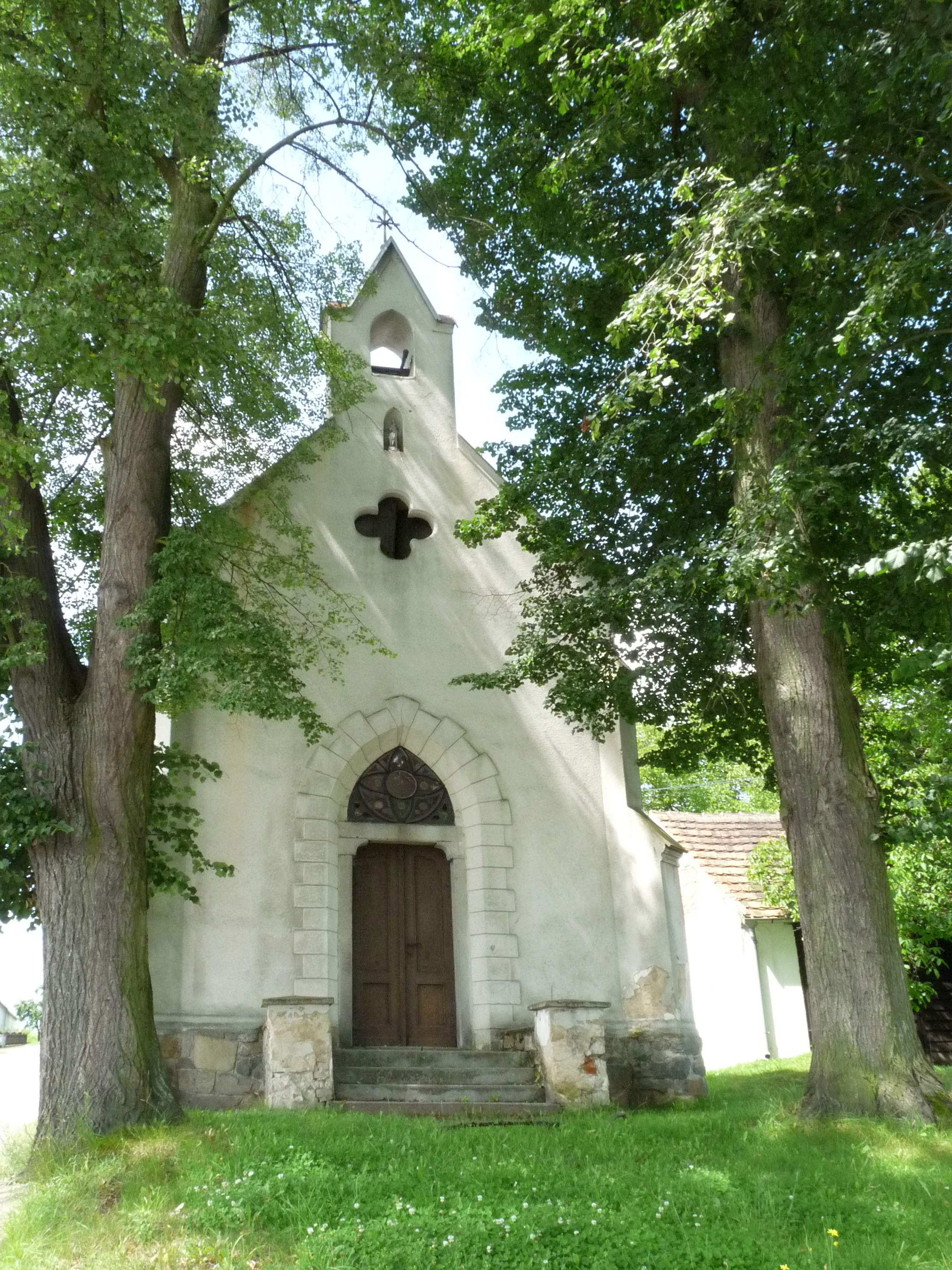 Virgin Mary Chapel in Borovnice, České Budějovice district, Czech Republic